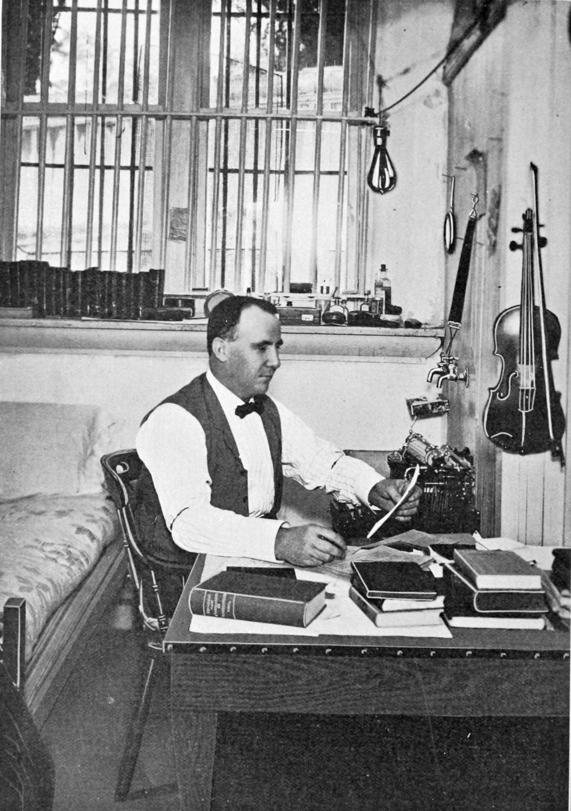 Oregon criminal and author Stephen. A. D. Puter at work in his jail cell